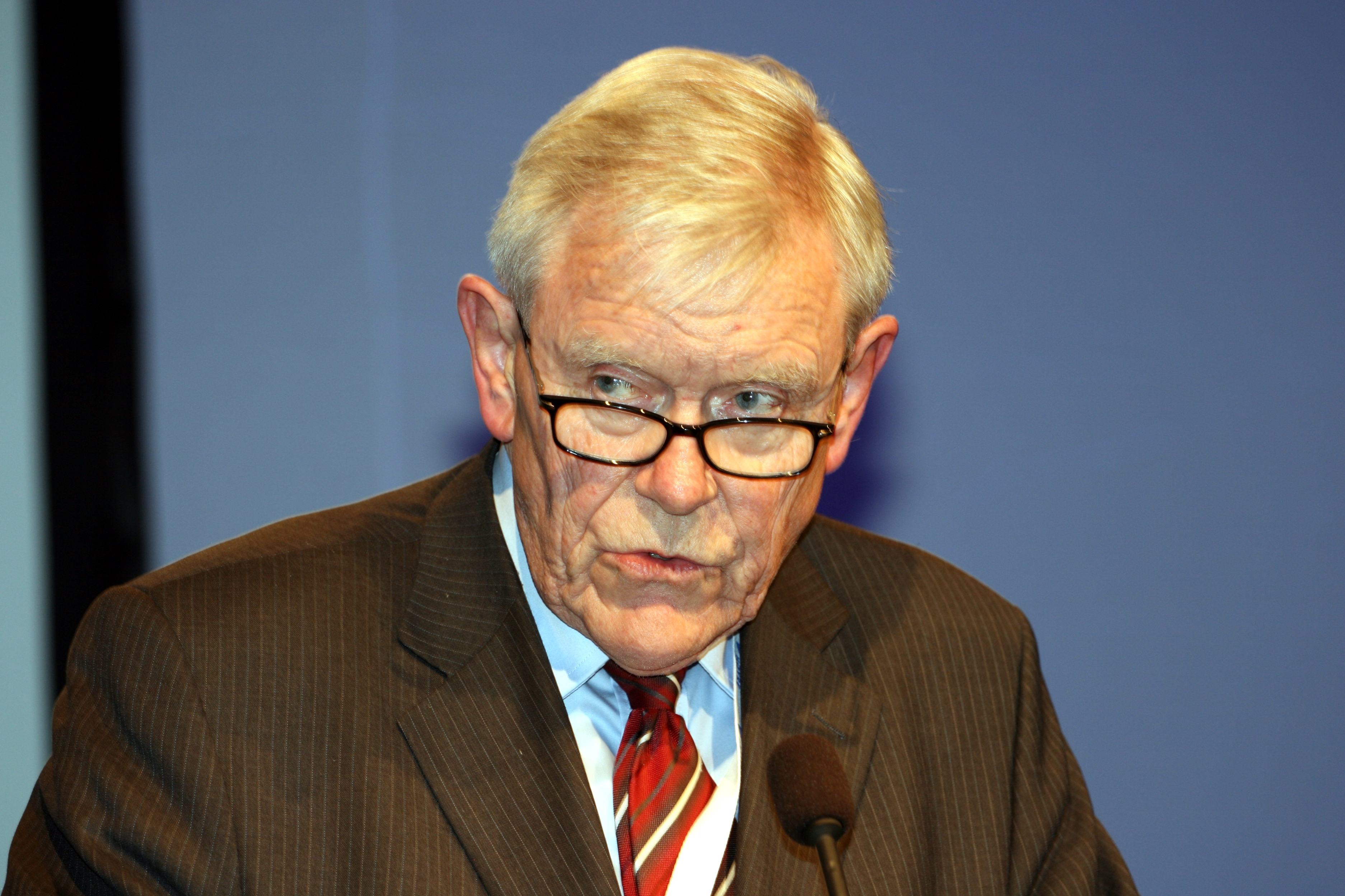 Inge Lønning, Norwegian politician (Conservative Party).